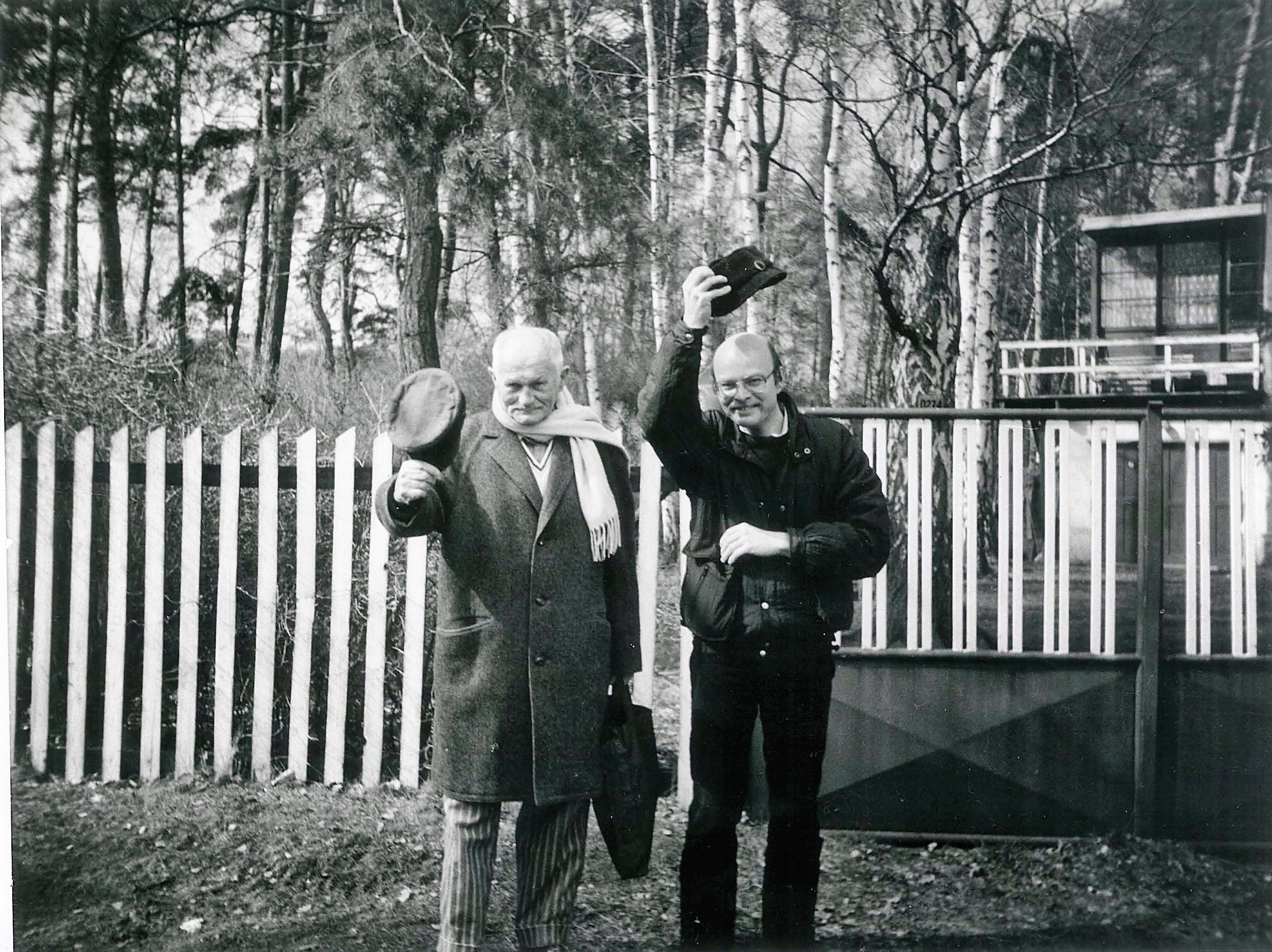 Bohumil Hrabal and Jaromír Pelc, 1986